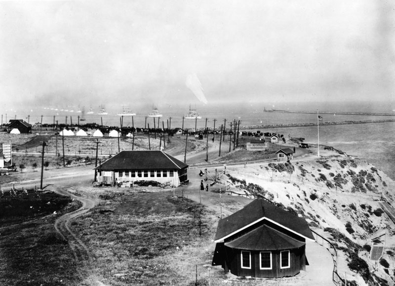 The Great White Fleet arriving at the Port of Los Angeles, 1908. People gathered to watch the fleet enter the harbor. Breakwaters are in the background (right side).